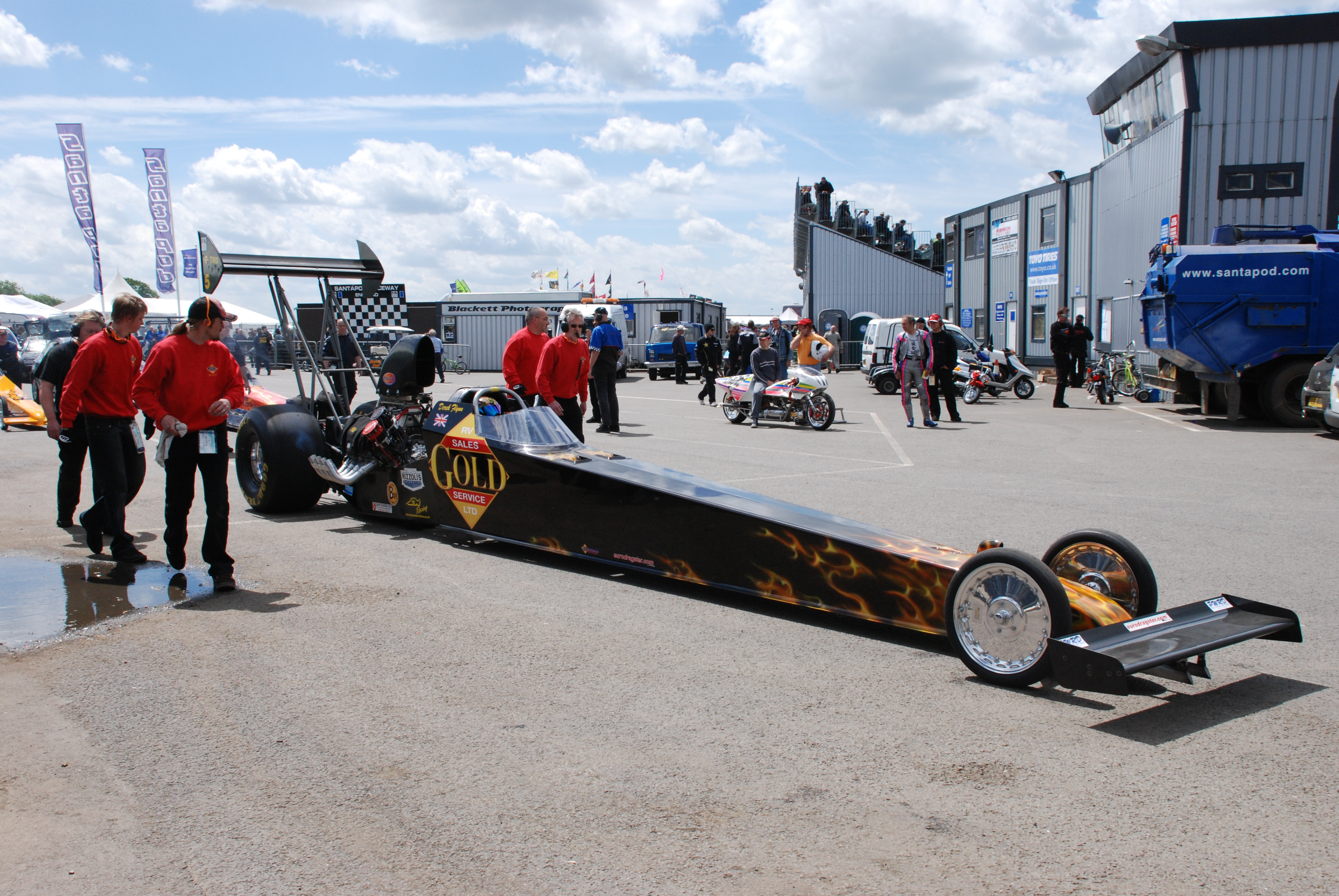 FIA Top Methanol Dragster - Driver: Derek Flyn (England) - Santa Pod